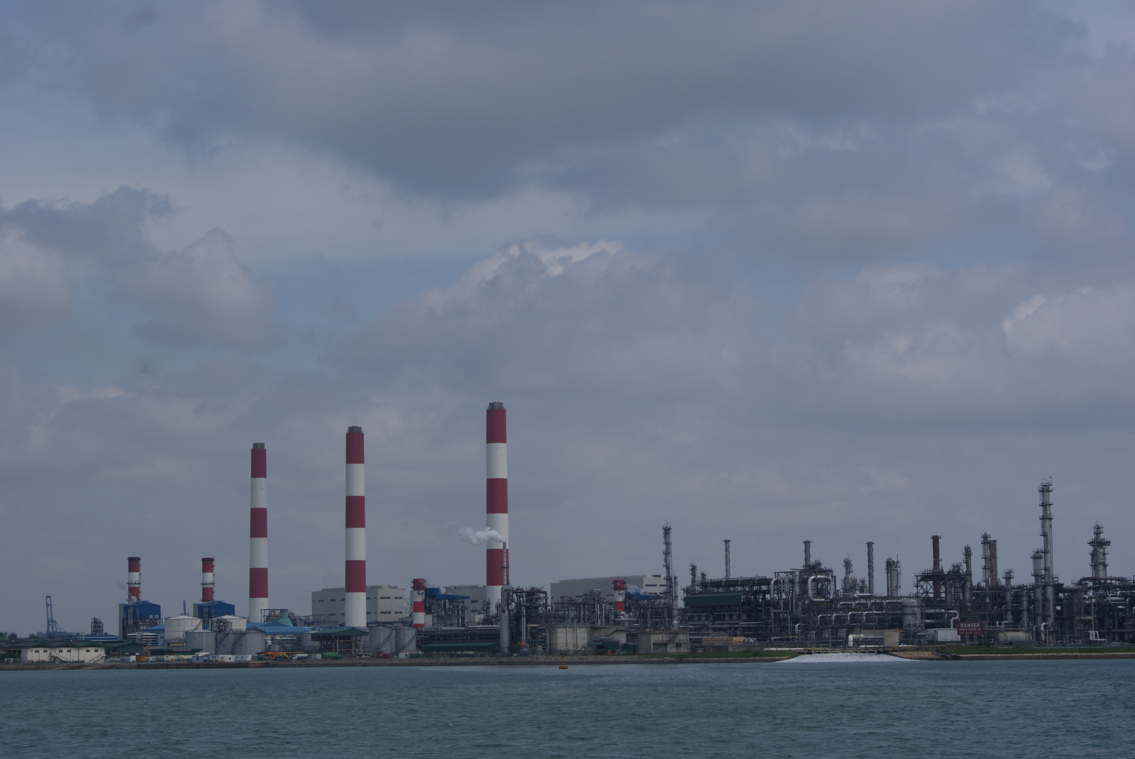 Jurong Island, Singapore, an artificial island located to the southwest of the main island of Singapore, off Jurong Industrial Estate. Formed by amalgamating a number of smaller islands through land reclamation, it is used by the petrochemical industry.